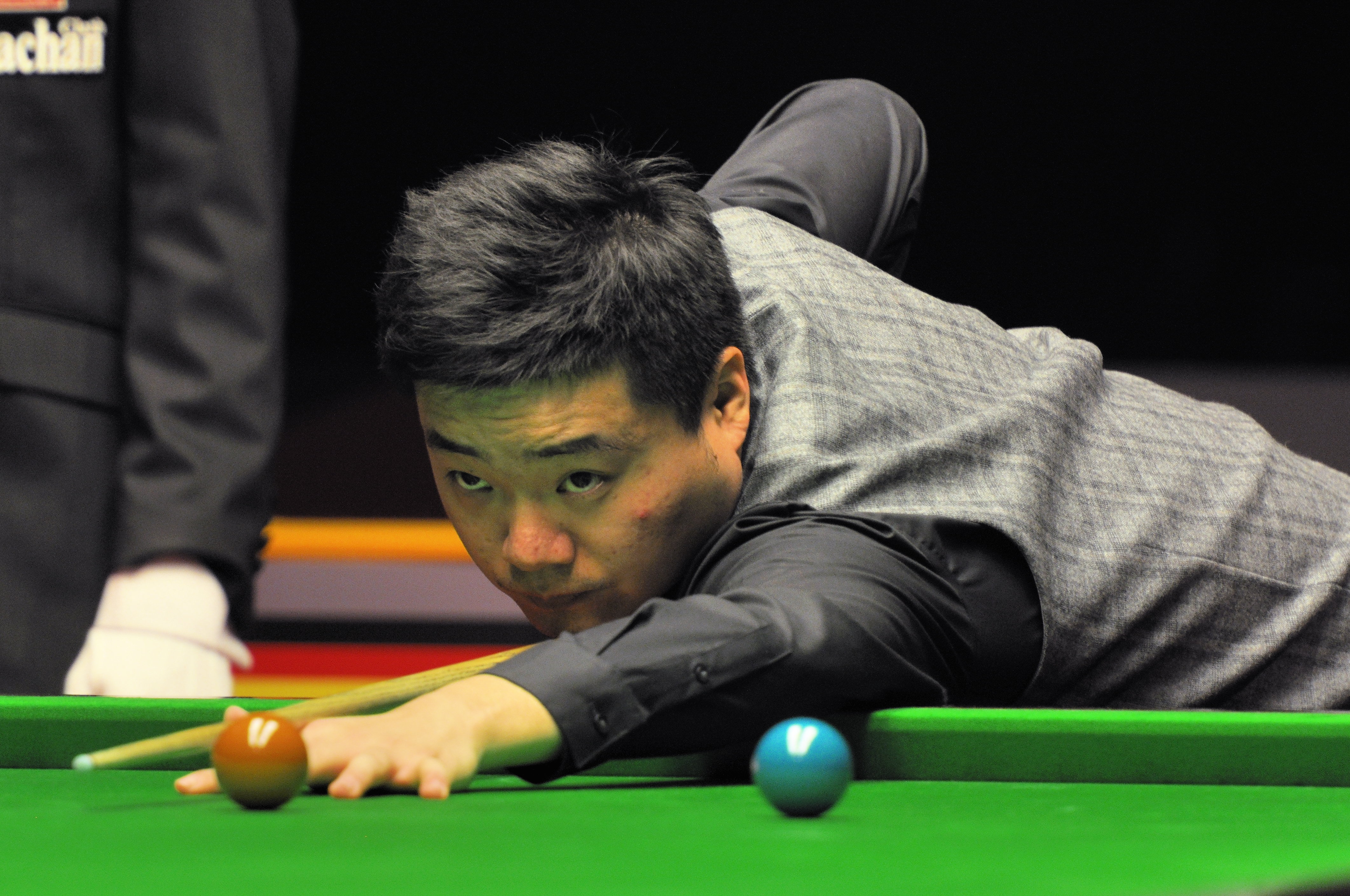 Picture taken in Berlin during the Snooker German Masters in 2014. Ding Junhui.